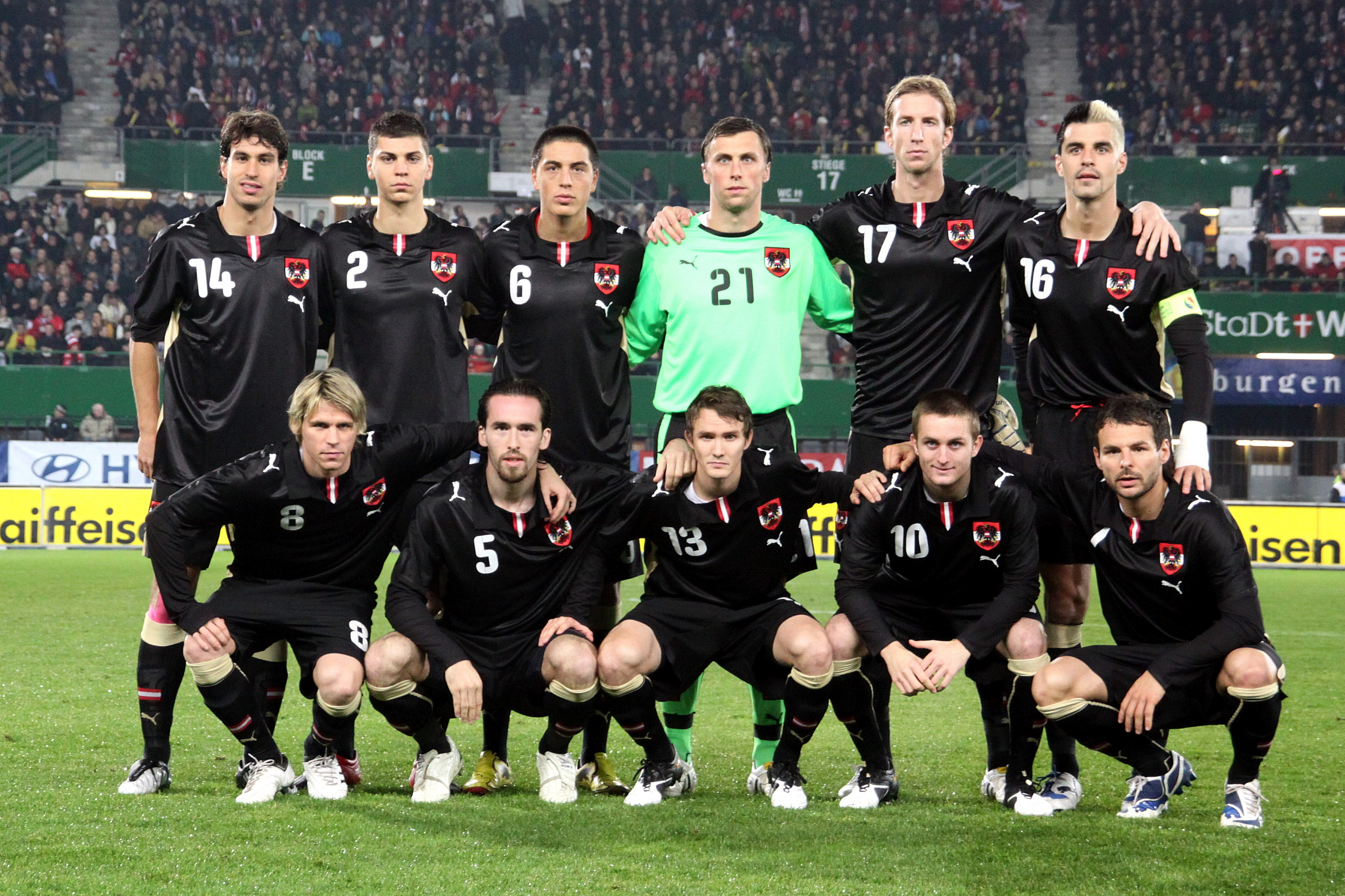 Austria national football team against Spain